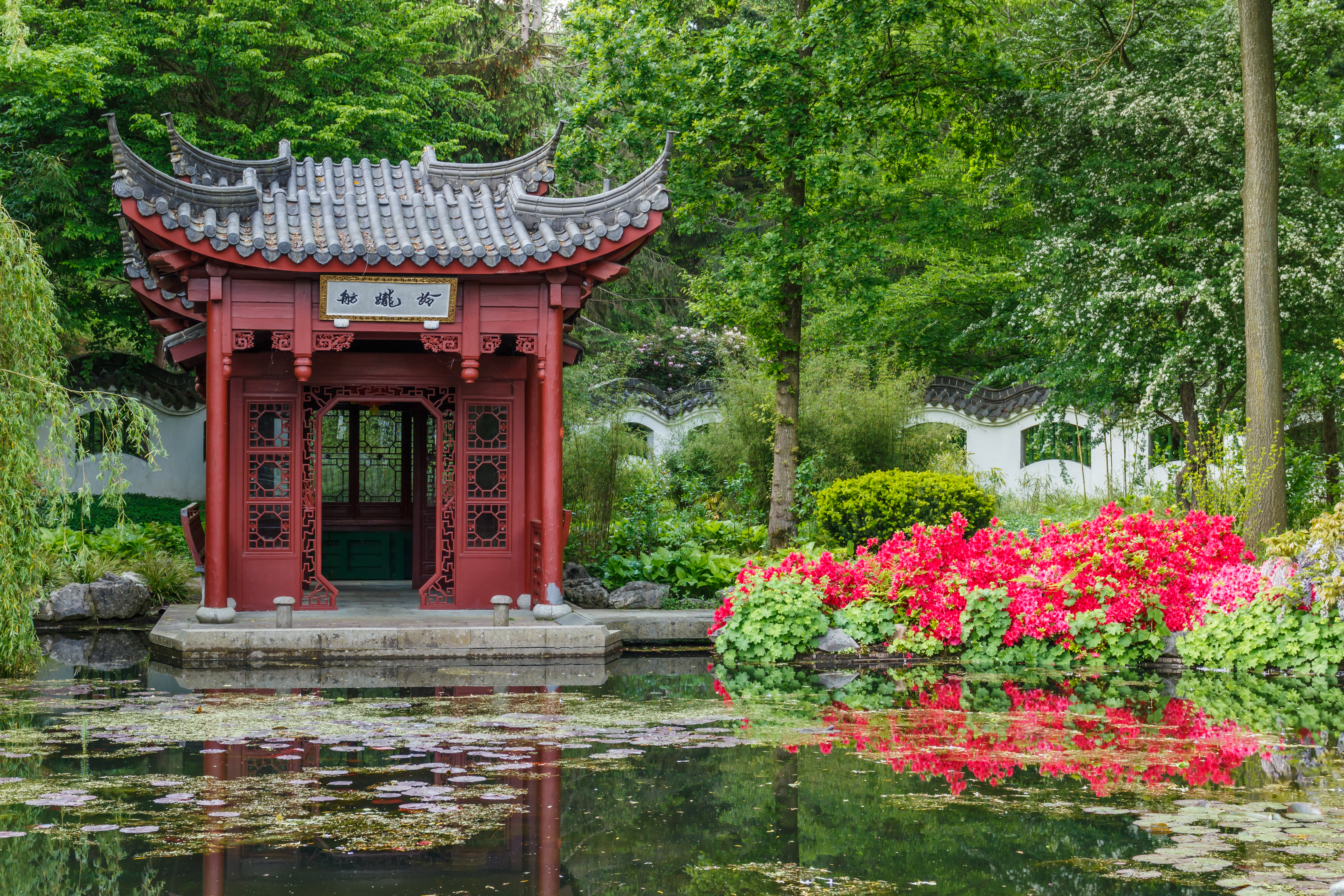 Building depicting a boat in the Chinese Garden The Hidden Empire Ming in the Hortus Haren in the Netherlands.